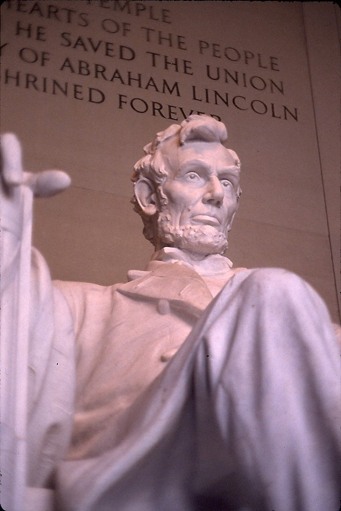 Lincoln Monument, "He saved the Union" 1920, DC French, sc.